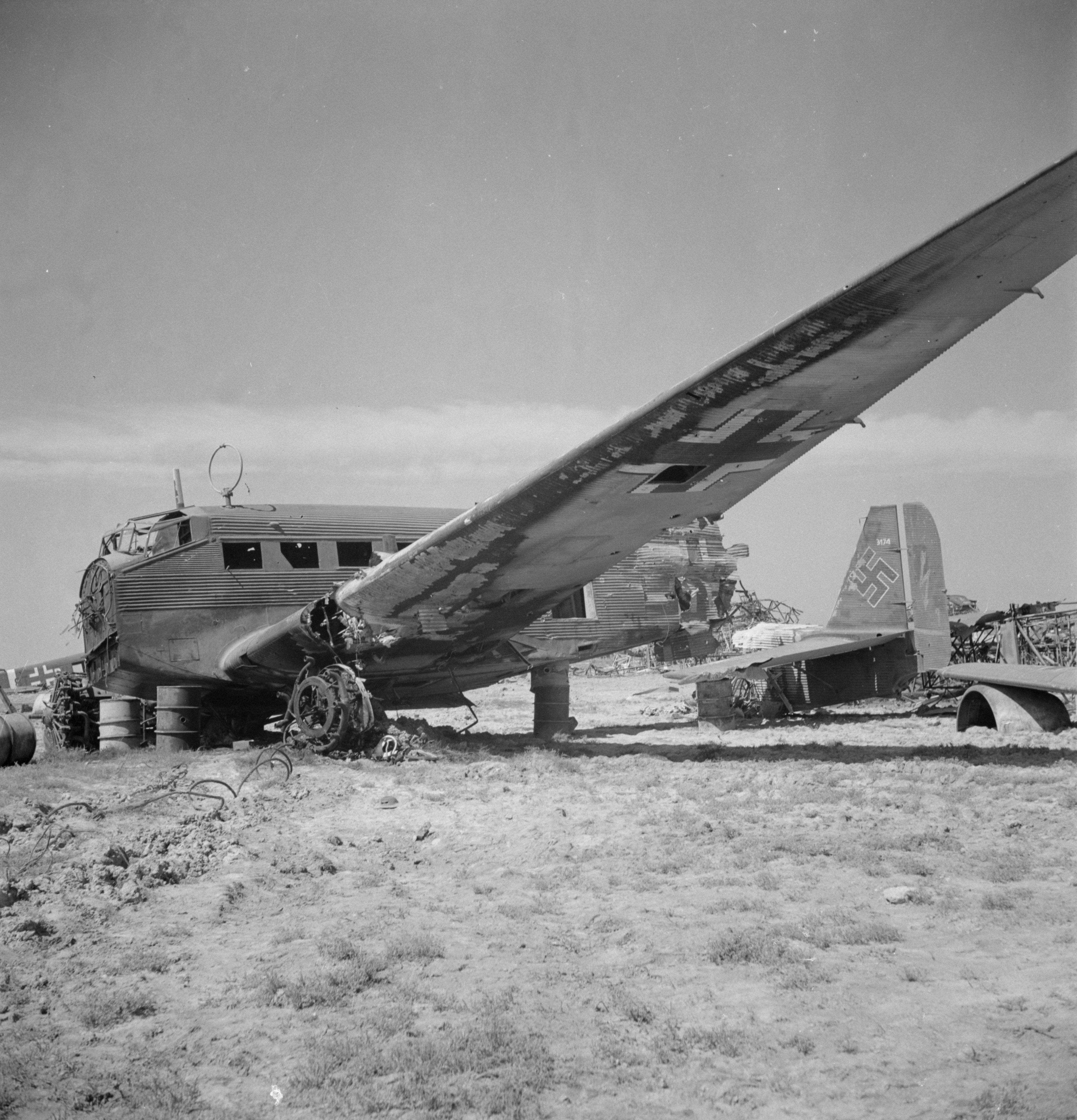 Wrecks of German Junkers Ju 52 transport planes at El Aouiana airport, Tunis, Tunisia, May 1943.